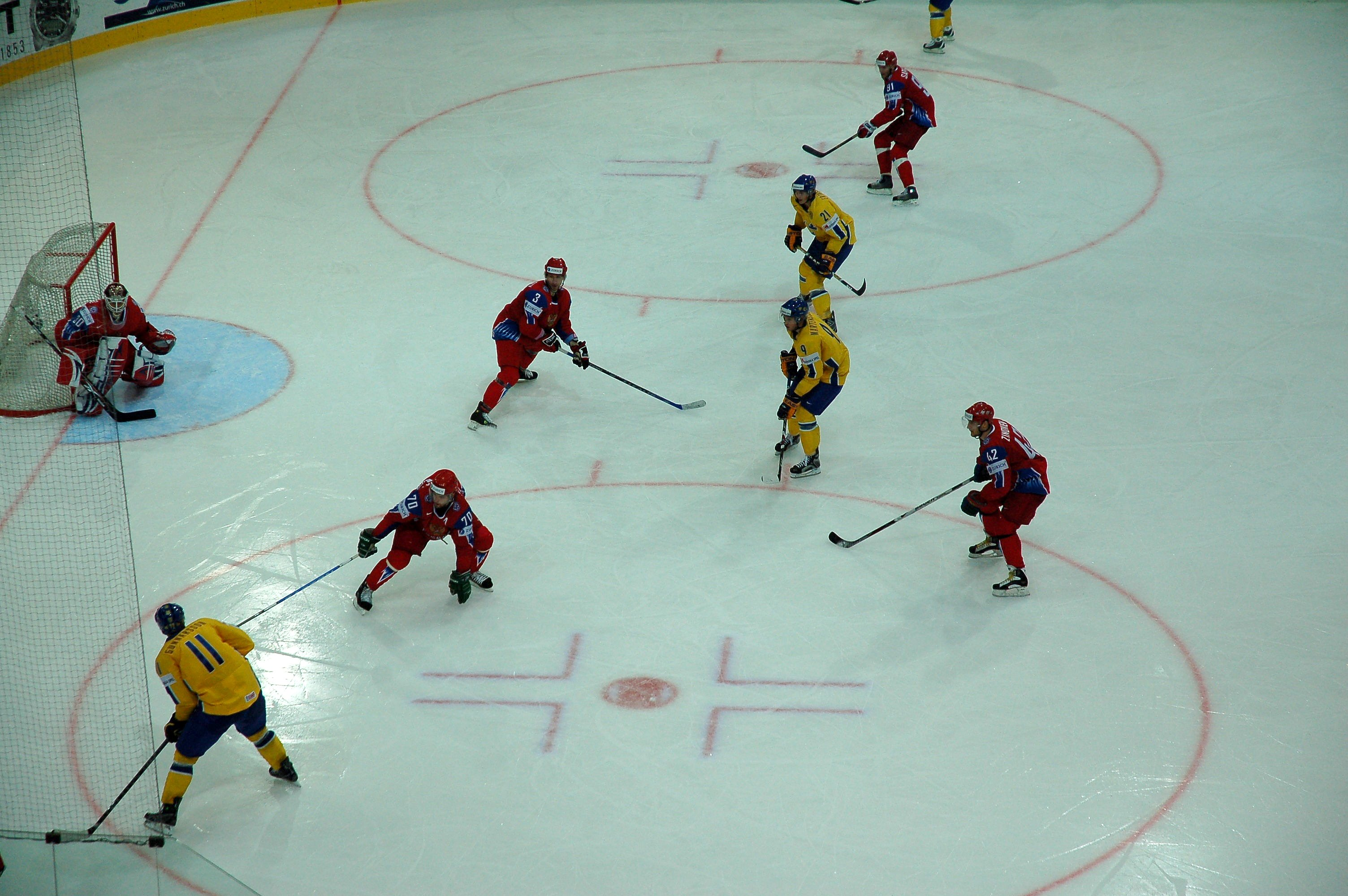 Russia-Sweden, 6:5 World championship 2009, Bern April 30, 2009